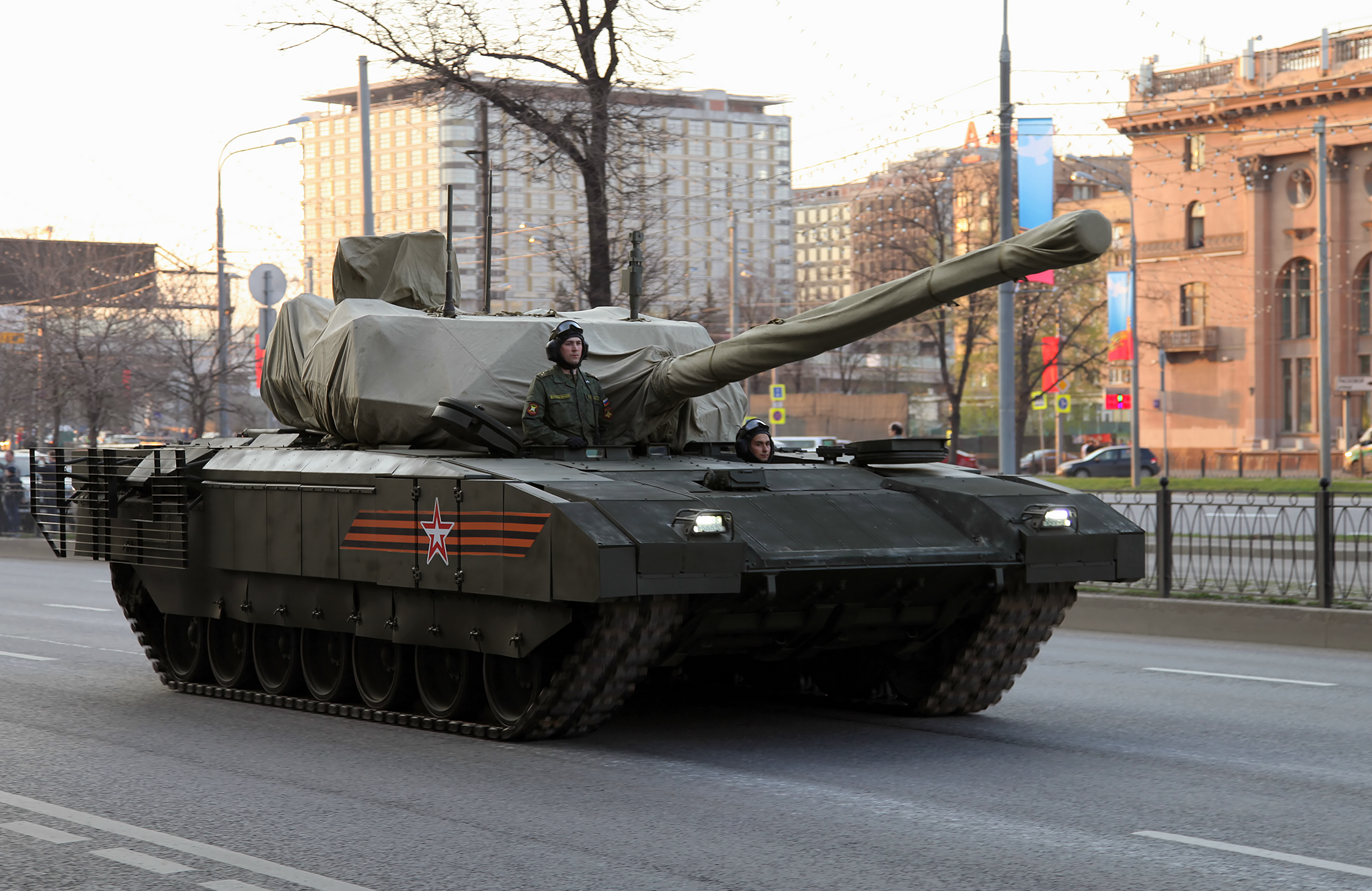 Main battle tank T-14 object 148 Armata (during the first night rehearsal in Moscow)